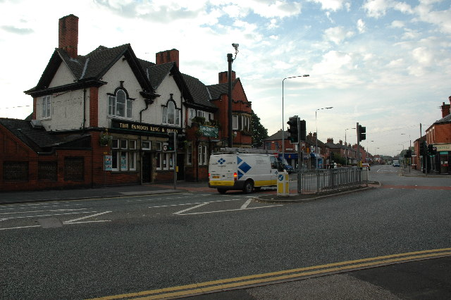 The Famous King and Queen pub. This is the Famous King and Queen public house at the jubction of Padgate Lane, Orford Road and King Edward Street near Padgate, Warrington.